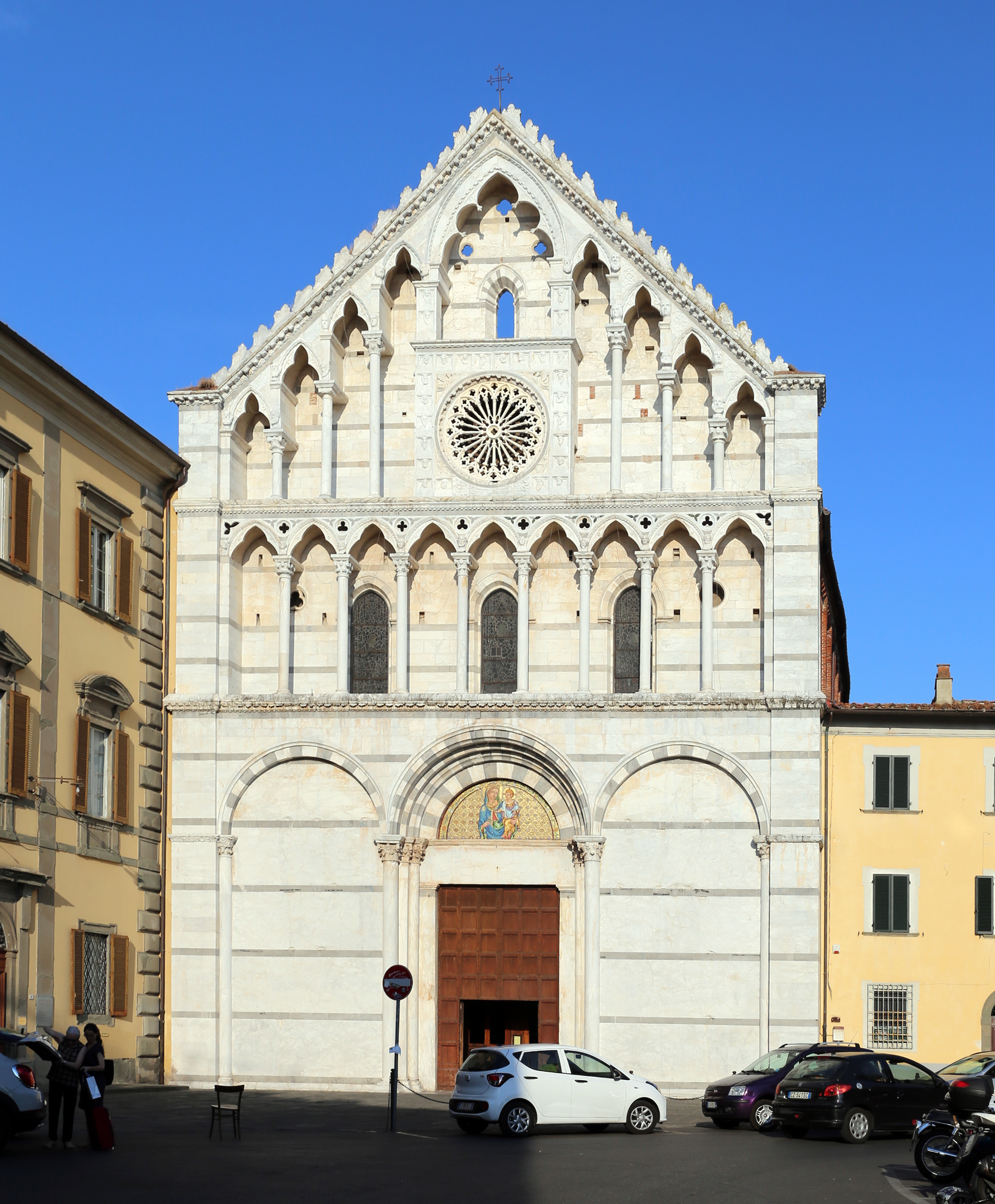 Santa Caterina (Pisa)